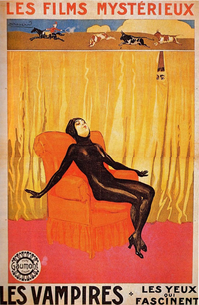 A poster used to advertise an episode of the successful French silent serial film Les Vampires, directed by Louis Feuillade. It pictures the film's leading actress Musidora as Irma Vep and Édouard Mathé as Philipe Guérande. The episode featured is "Hypnotic Eyes" ("Les Yeux Qui Fascinent"), released on 24 March 1916.